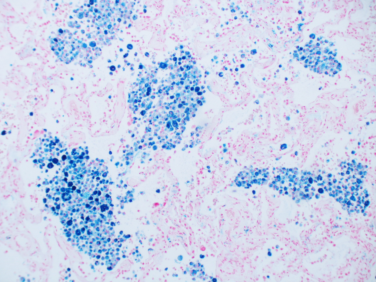 Intra-alveolar hemosiderin deposition Extensive Intra-alveolar hemosiderin deposition following pulmonary hemorrhage. Prussian blue stain. Pulmonary veno-occlusive disease.